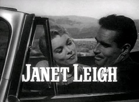 Screenshot of Janet Leigh and Charlton Heston from the trailer for the film Touch of Evil